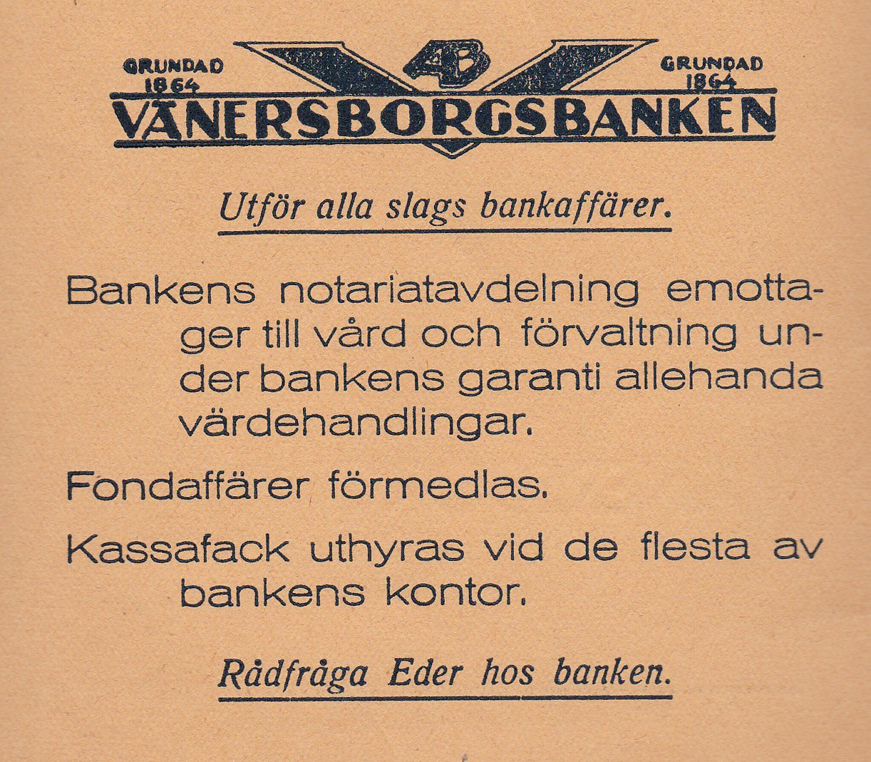 Advertisement for Vänersborgsbanken (dissolved 1943) in a local guide book published 1935